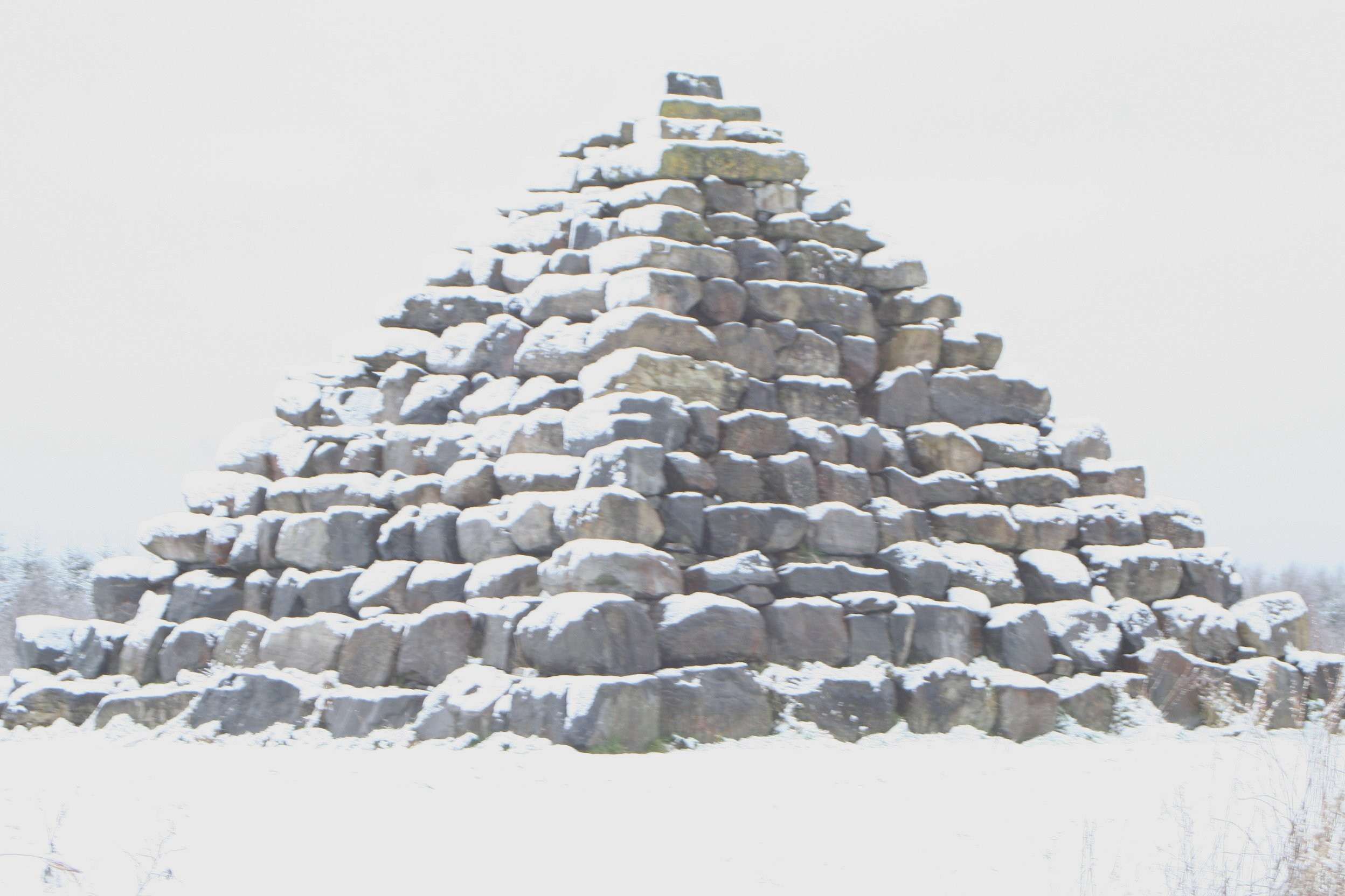 Snow Scene of sculpture Boora Pyramid (2002) by Eileen Mac Donagh at sculpture park Sculpture in the Parklands in Ireland.